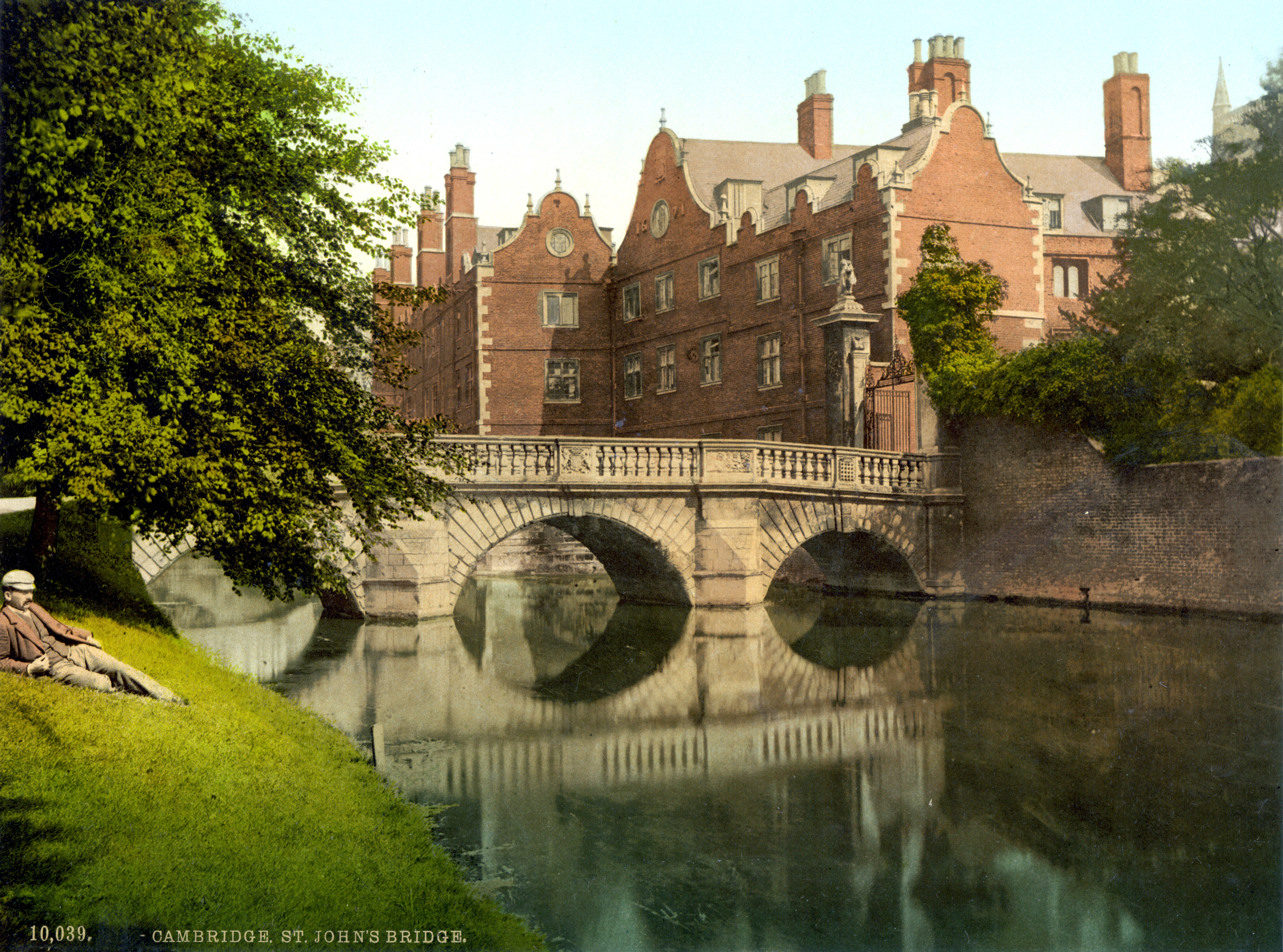 Kitchen Bridge, located south of the Bridge of Sighs, St. John's College, Cambridge, England